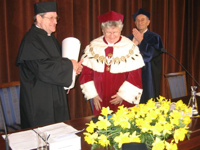 Norman Davies (b. 1939), British historian - Doctor Honoris Causa Warsaw University